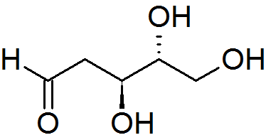 The structure of the chain form of 2-deoxy-Dribose as verified at CAS Common Chemistry.